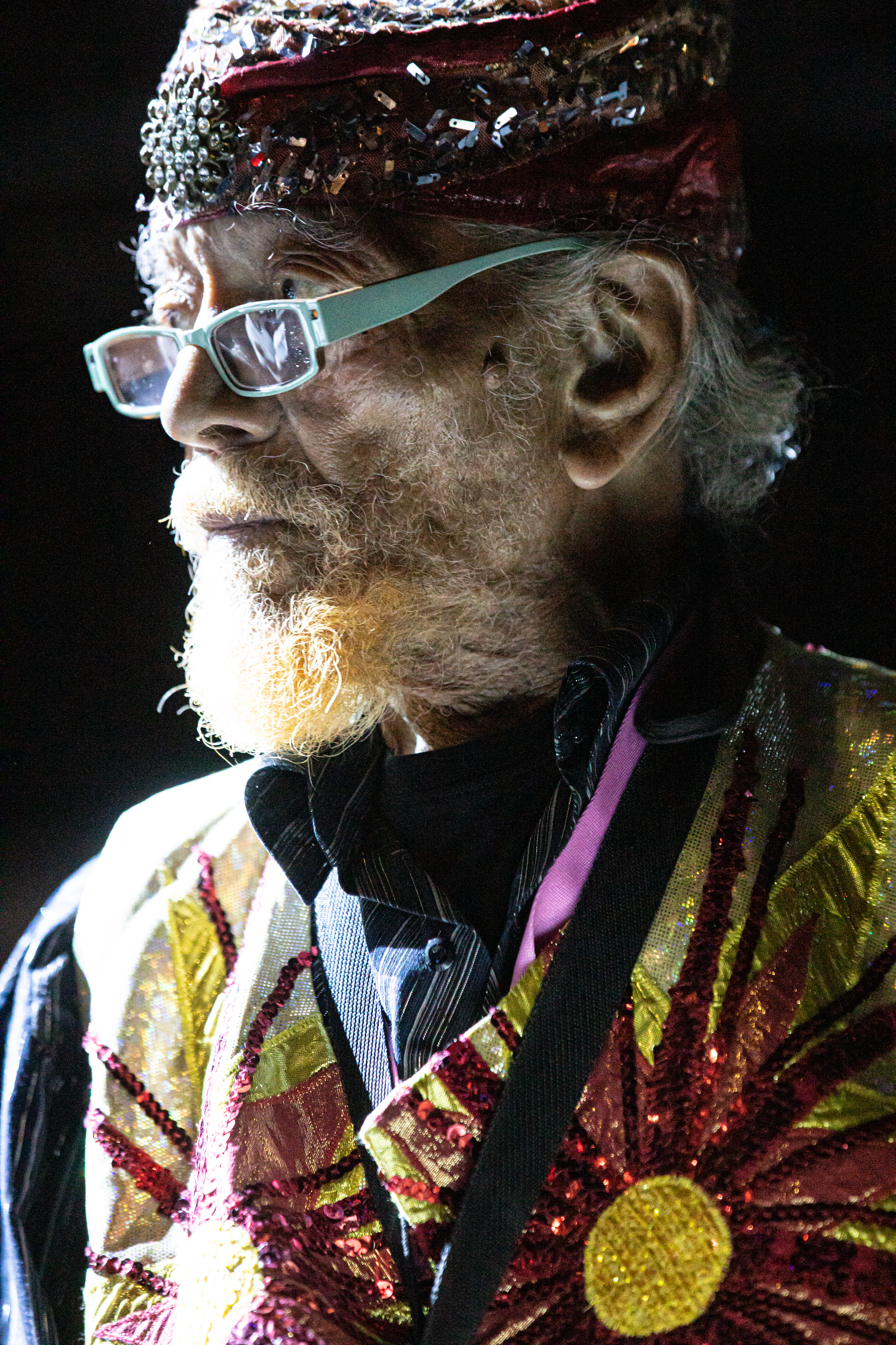 Jazz musician Marshall Allen at the Moers Festival 2019